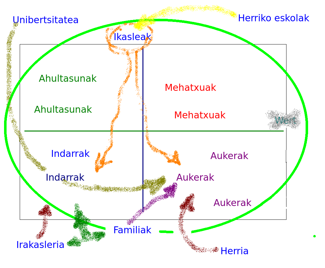 A SWOT analysis